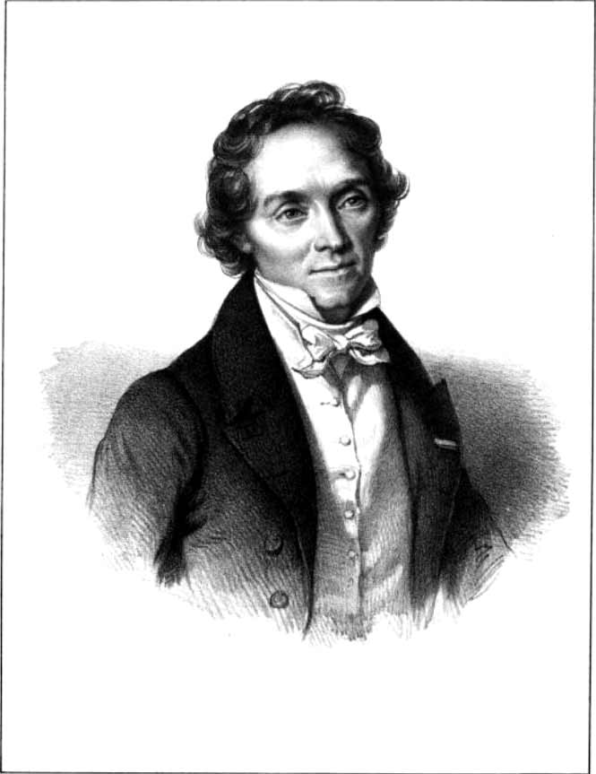 Drawing of Casimir Delavigne (1793-1843), French dramatist and litterateur